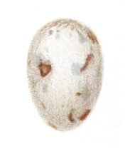 Egg of Dendronanthus indicus